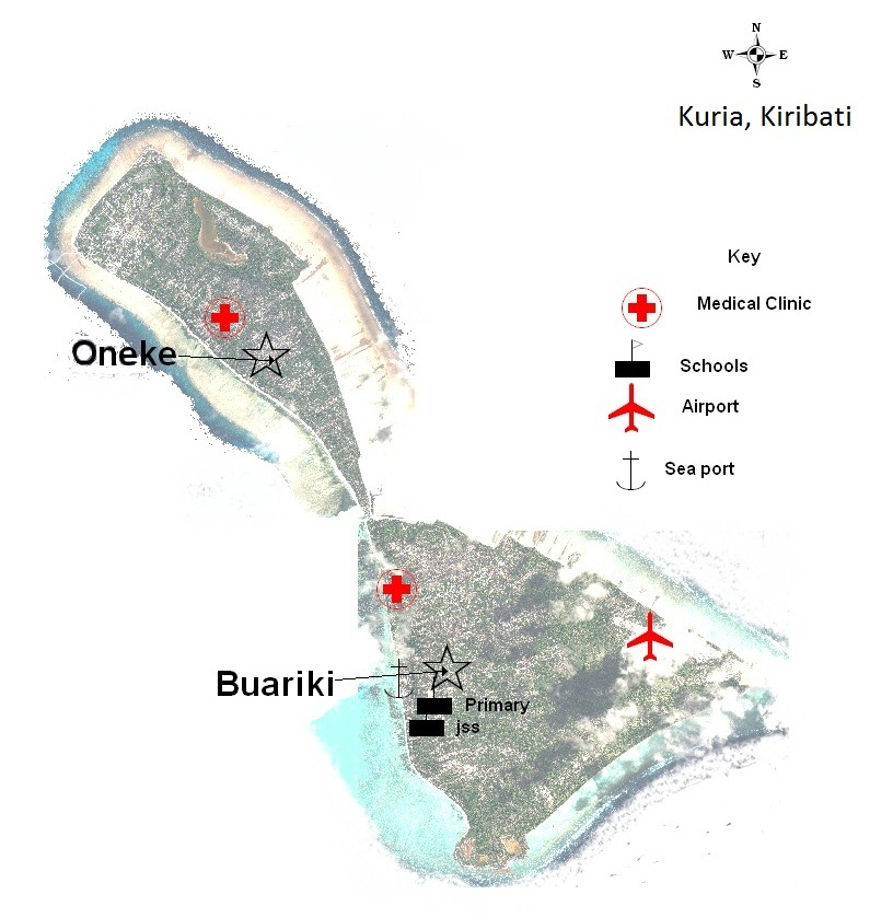 Astronaut photo of Kuria, Kiribati with villages and main landmarks